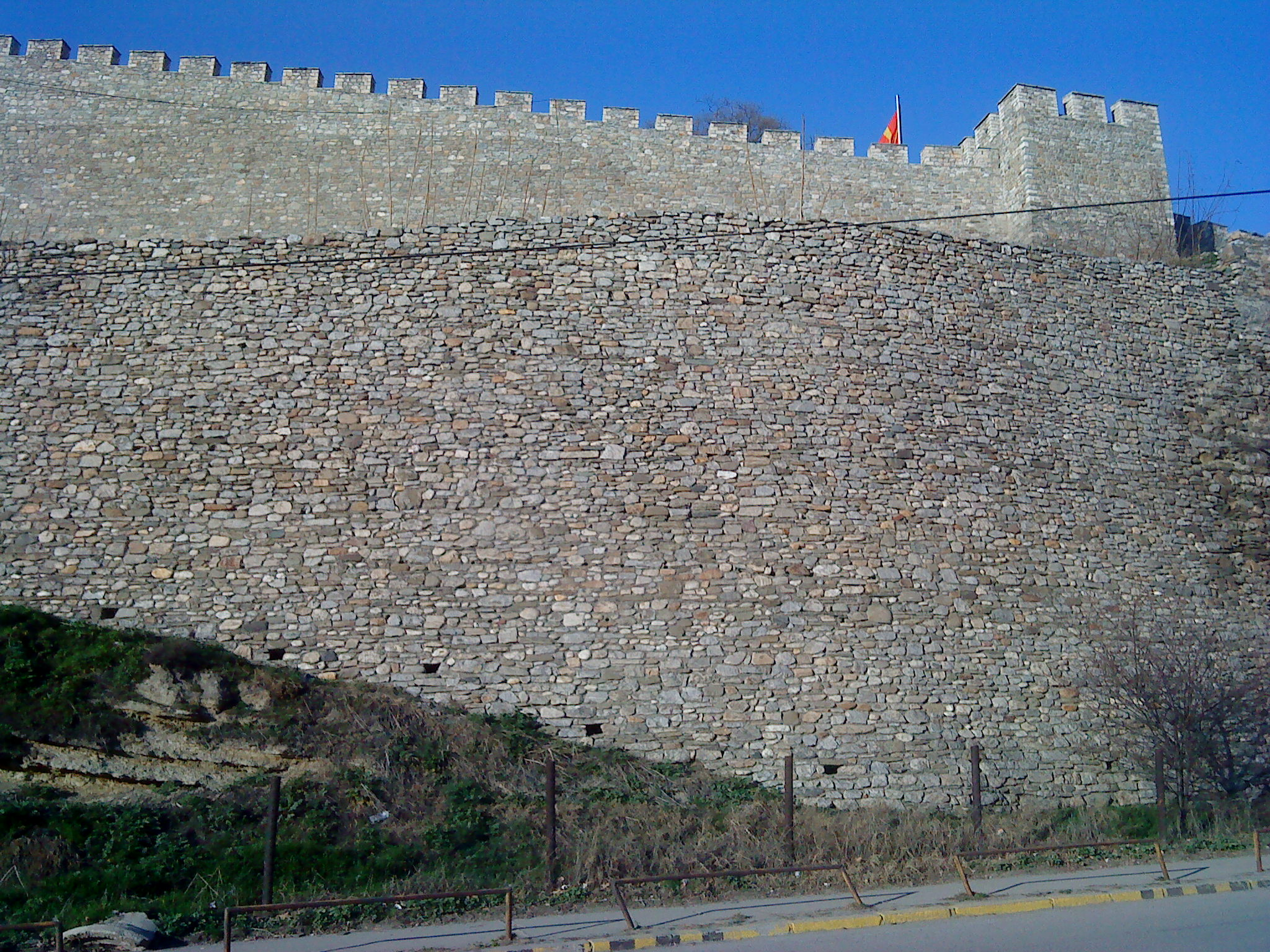 Skopje Fortress